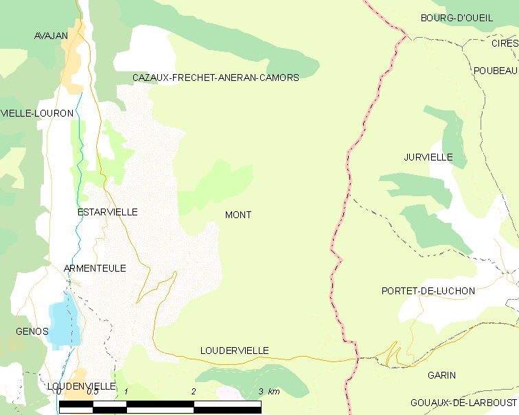 Map of French municipality